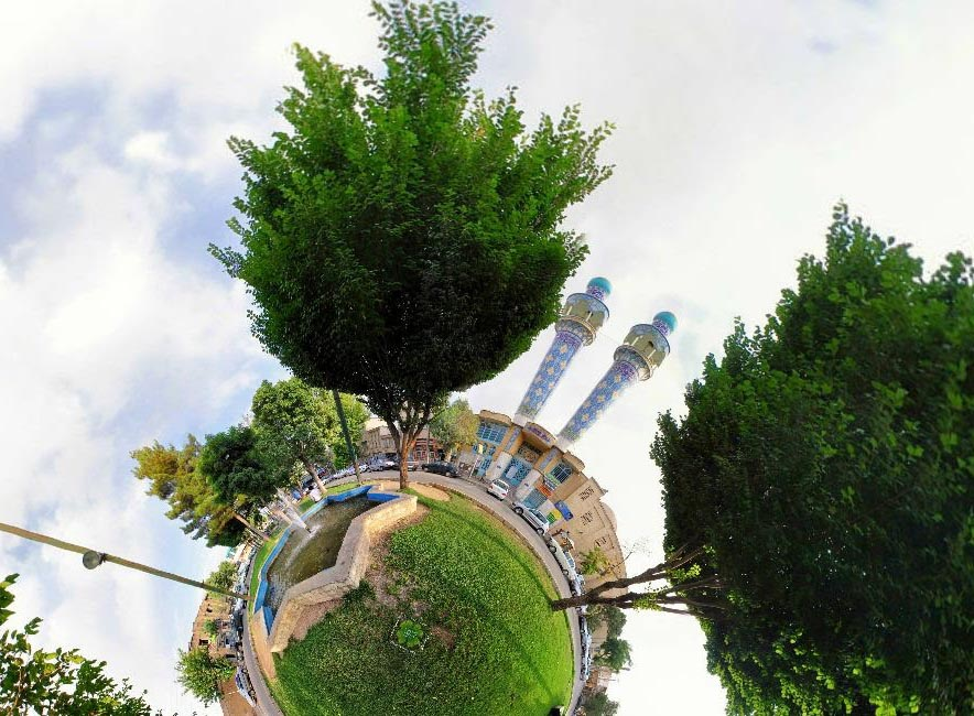 Panorama of Arg Square and Agha Ziauddin Mosque in Arak.